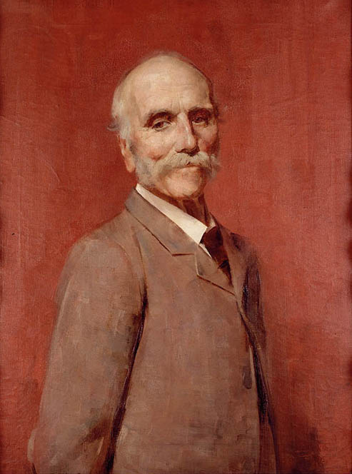 Edward D. S. Ogilvie, 1894-1895, from oil painting, Tom Roberts, State Library of New South Wales ML 687